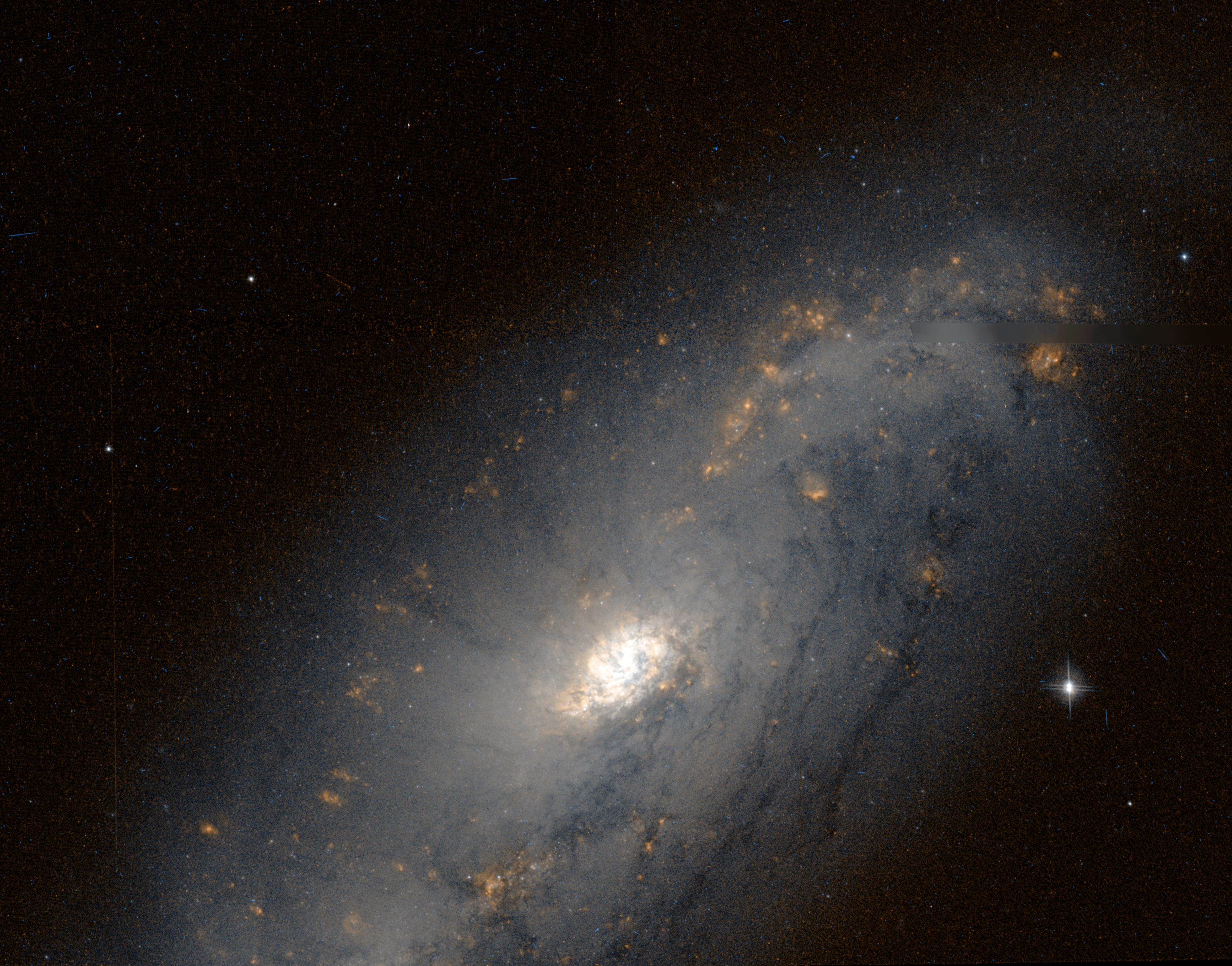 Color rendering is done by by Aladin-software (2000A&AS..143...33B.)